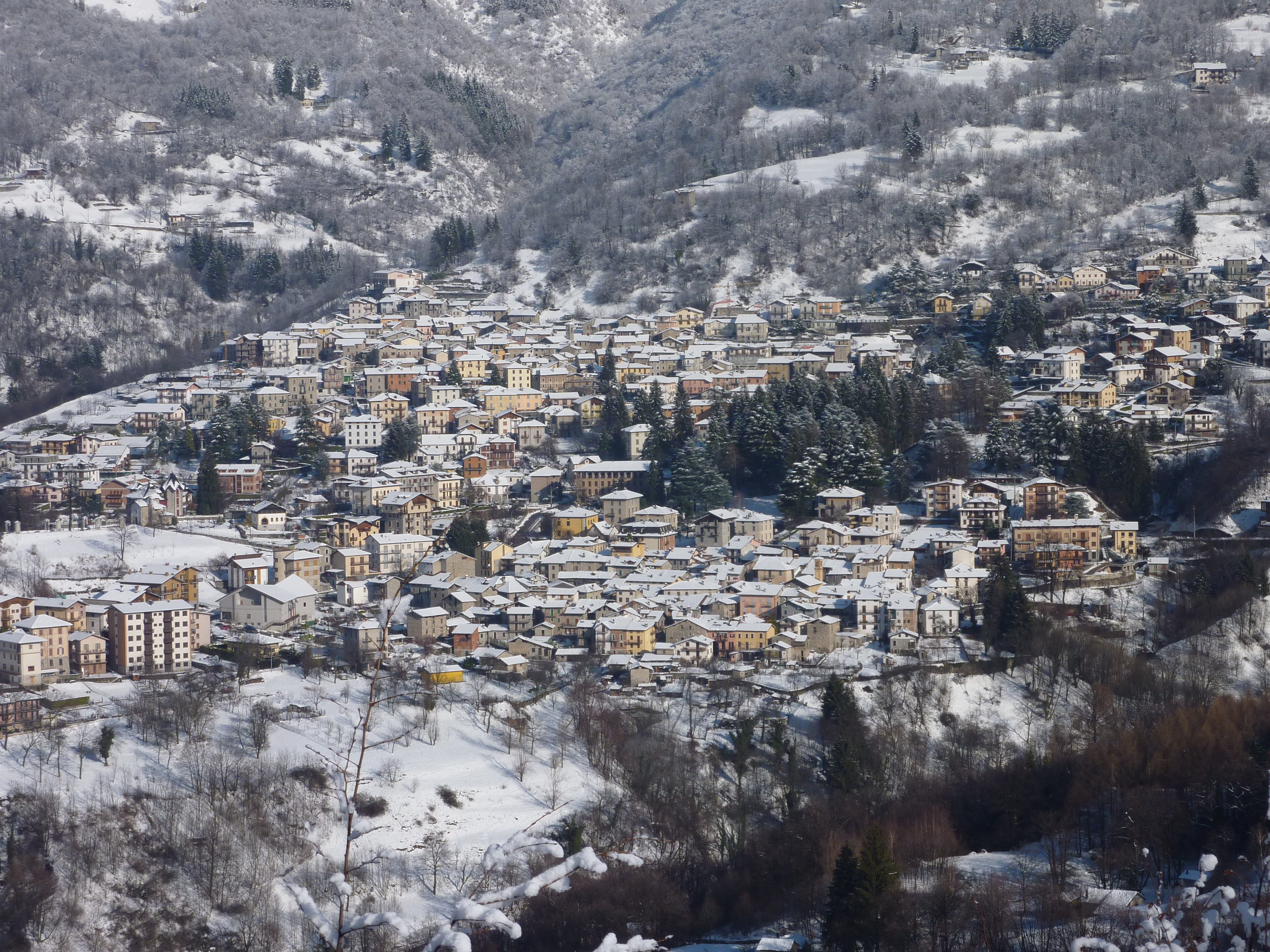 Image of Esino Lario and Grigna. Courtesy Archivio Pietro Pensa, photo by Carlo Maria Pensa.